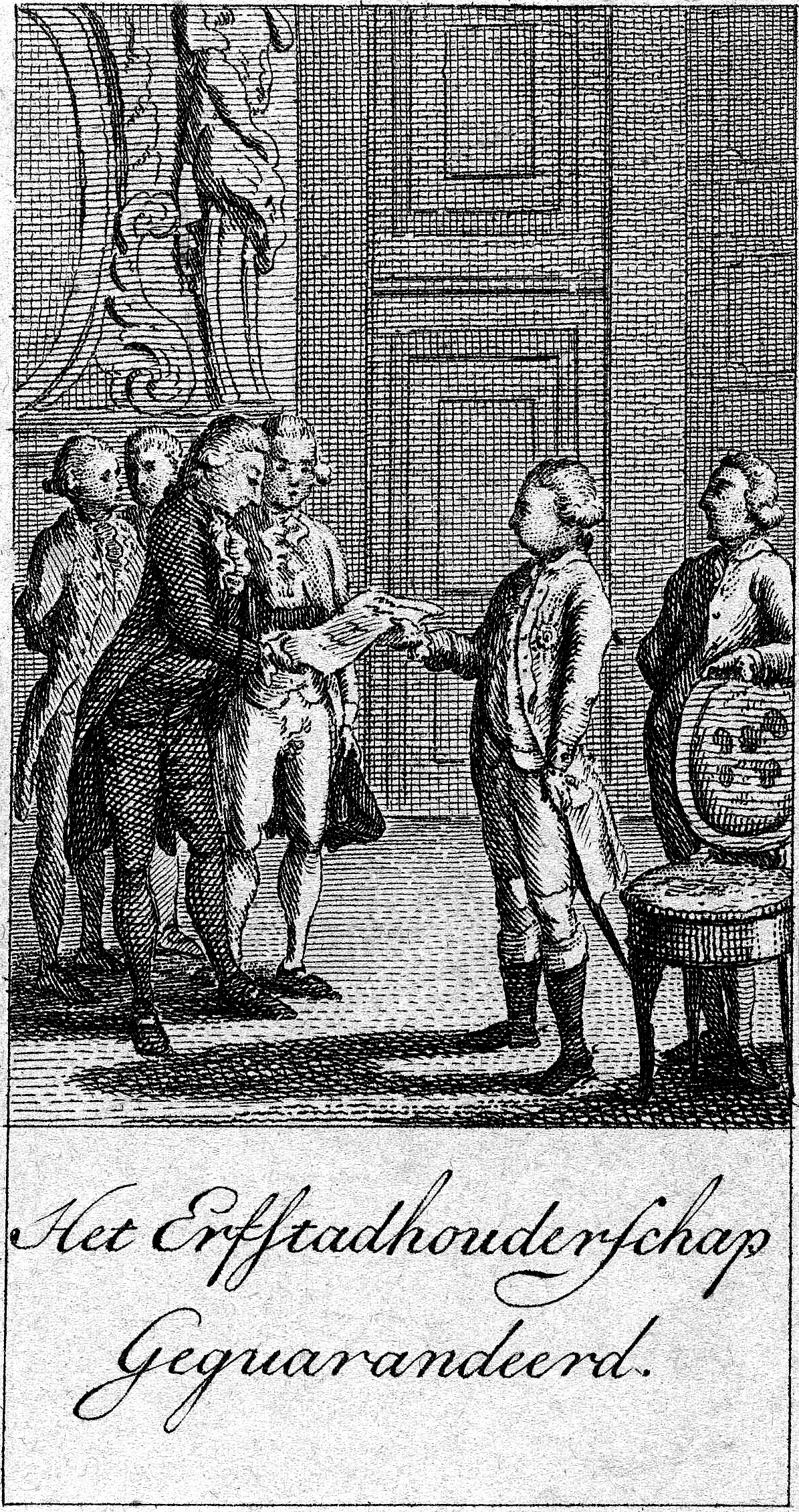 Presentation by a delegation of the States General in Huis ten Bosch Palace of the Act of Guarantee to Stadtholder William V of Orange-Nassau, July 10, 1788.